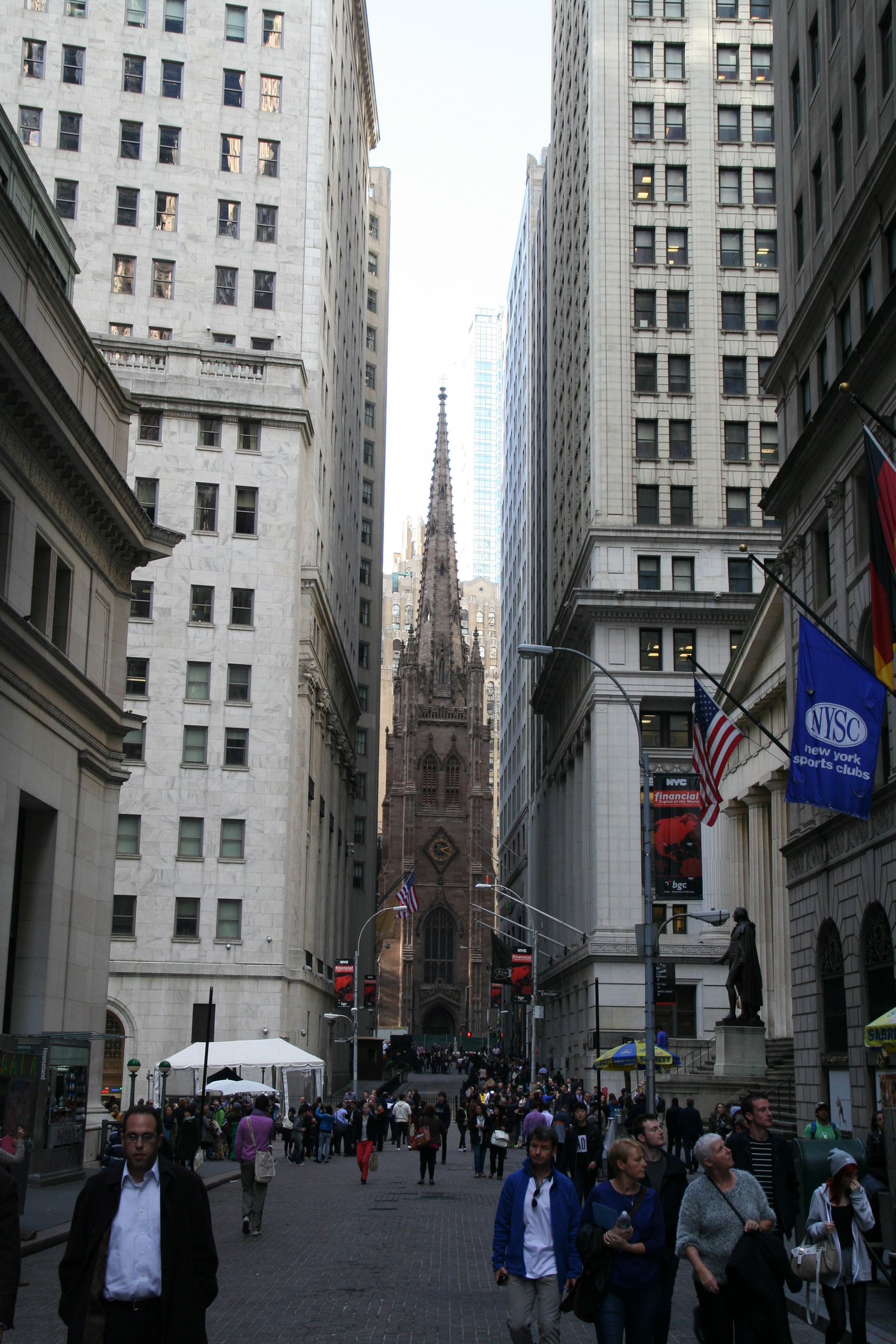 Looking west at Wall Street and Trinity Church in 2014.